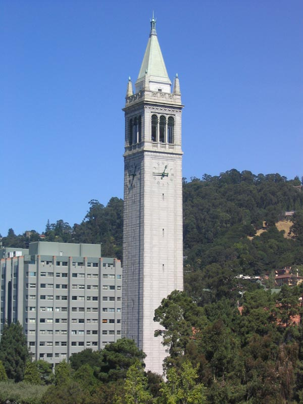 Photograph of Sather Tower (the Campanile) on the University of California, Berkeley campus taken on September 11, en:2003 by Minesweeper and released under terms of the GNU FDL. The building visible behind the tower on the left is Evans Hall.